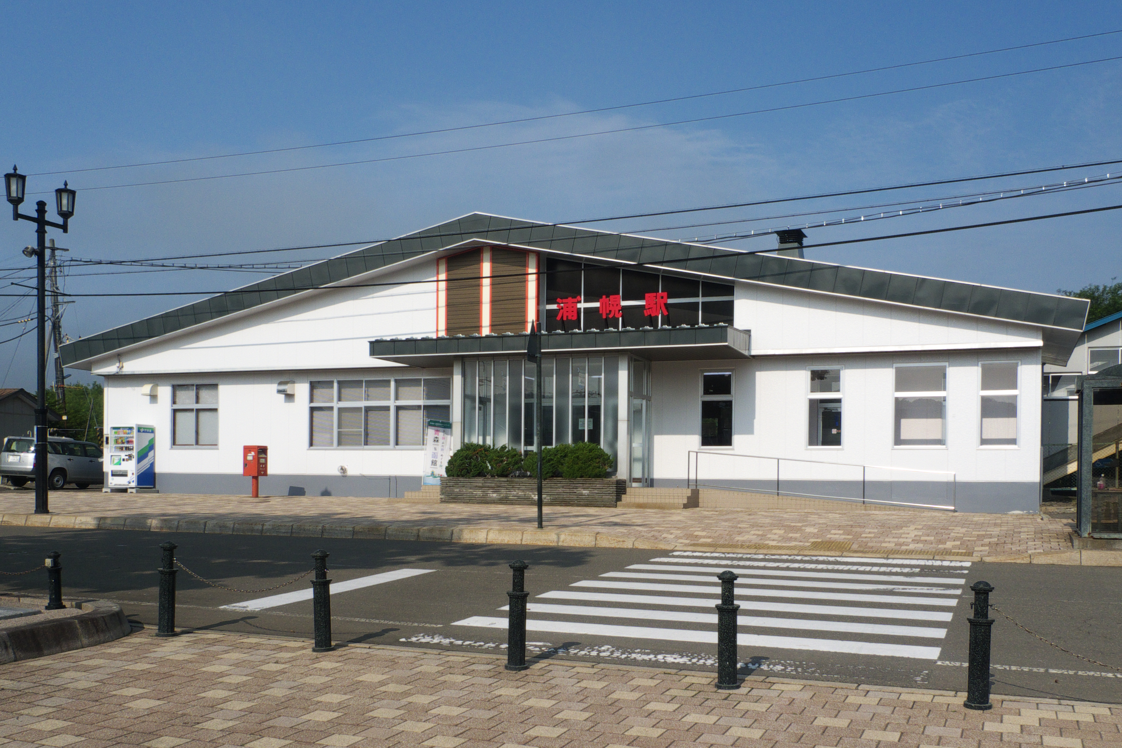 Hokkaido Railway Company (JR Hokkaido) Urahoro Station on the Nemuro Main Line